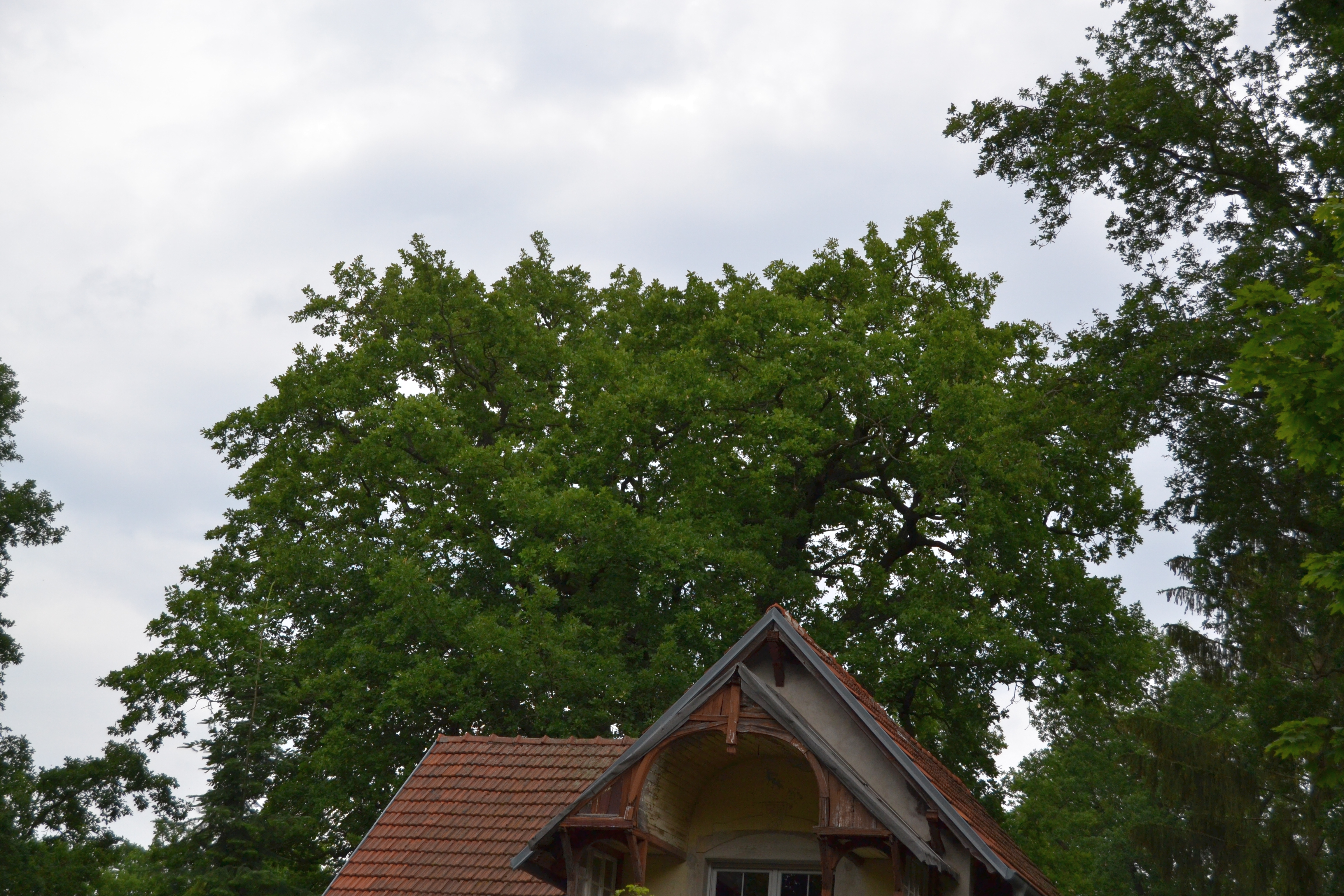 Oack (in the background in the garden) at the Eichenstrasse; Natural monument in Schöneiche bei Berlin, ca 30 meters high an 500 years old.